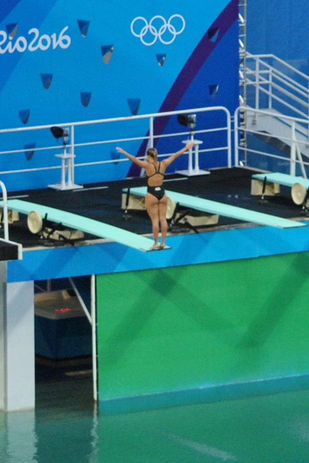 Elizabeth Cui at the Rio Olympics, image trimmed